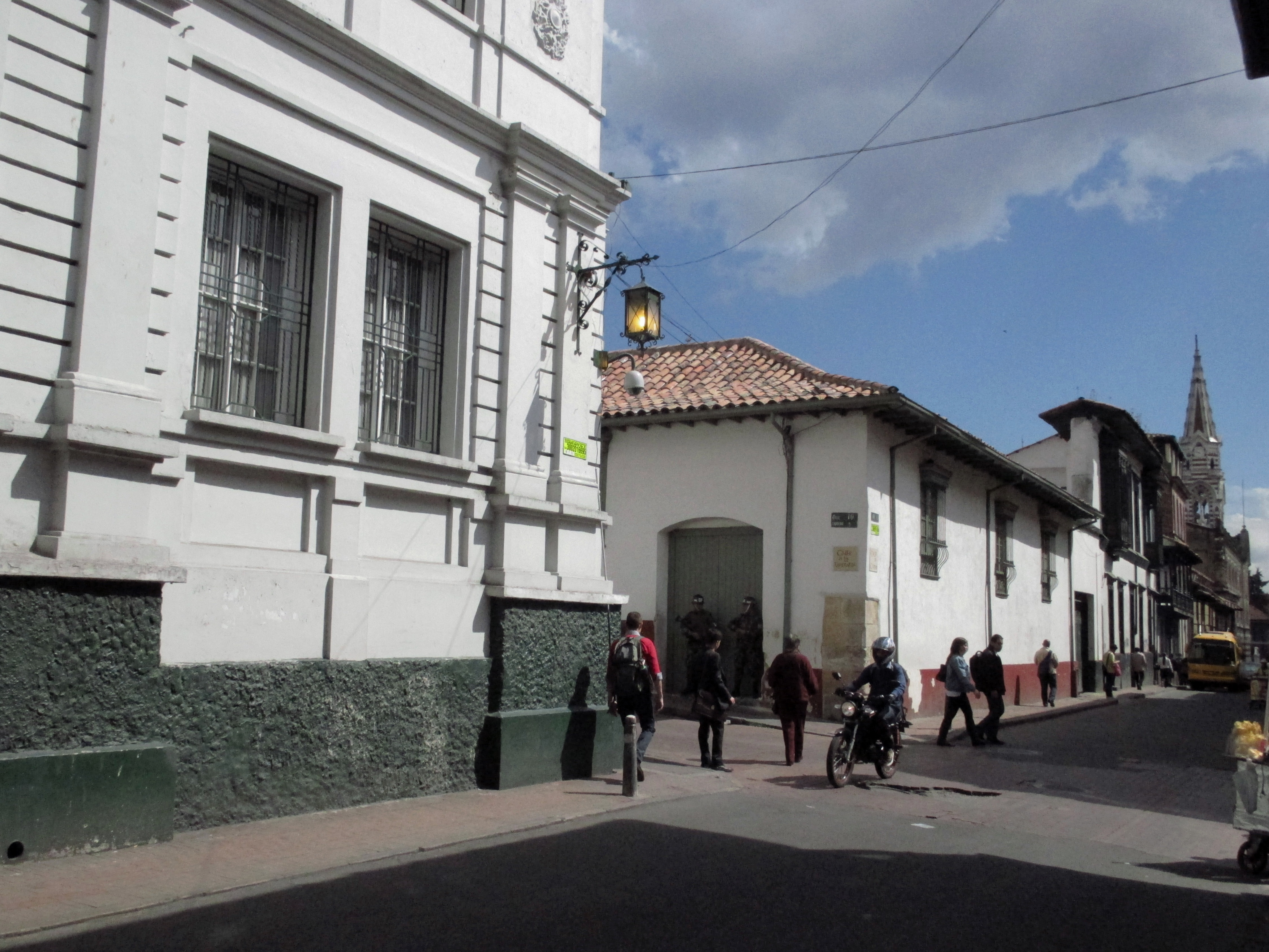 Bogotá